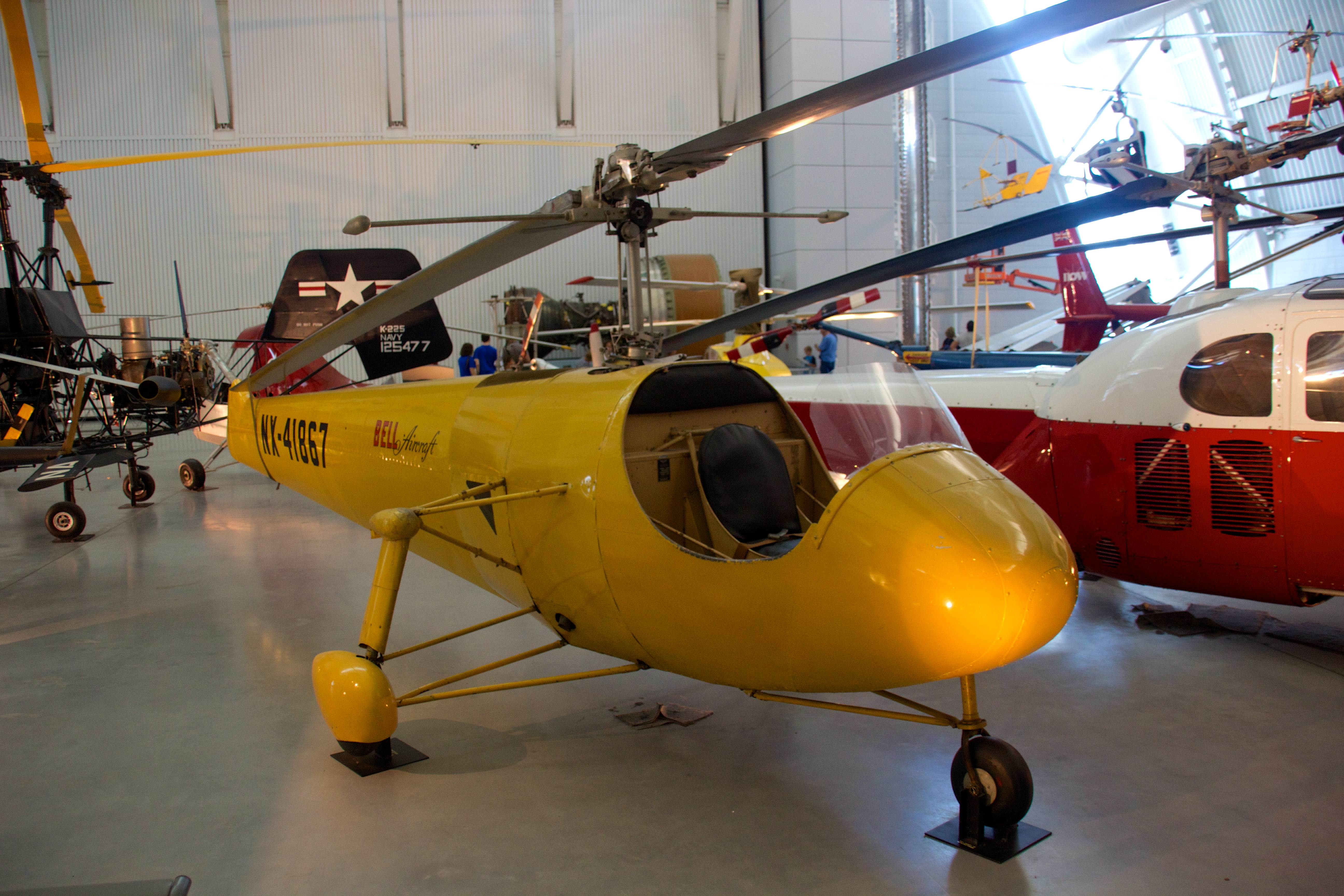 Bell Model 30 Ship 1A Genevieve. At the Steven F. Udvar-Hazy Center, Washington, D.C.